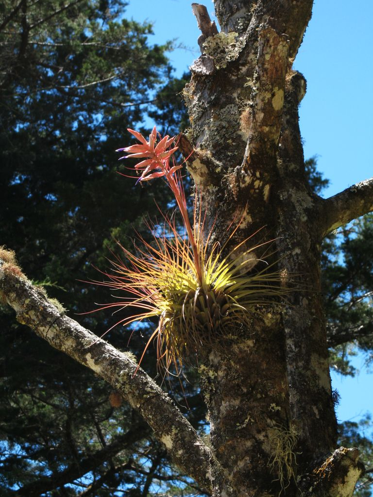 Tillandsia vicentina in habitat in El Salvador, Dept. Santa Ana, Parque Nacional Montecristo; 1231m.